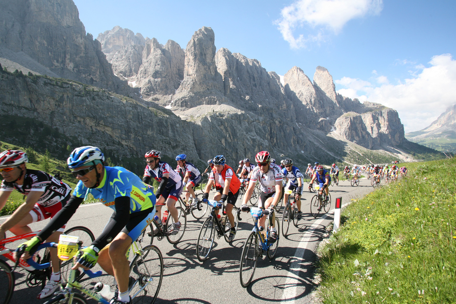 Maratona dles Dolomites 2008 edition - Picture provided by Maratona dles Dolomites Committee